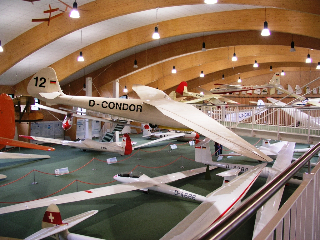 I took this picture